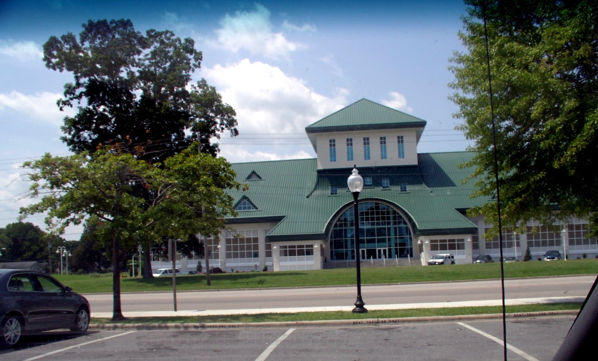 Museum of the Albemarle, Elizabeth City, NC. View of museum from Waterfront Park.